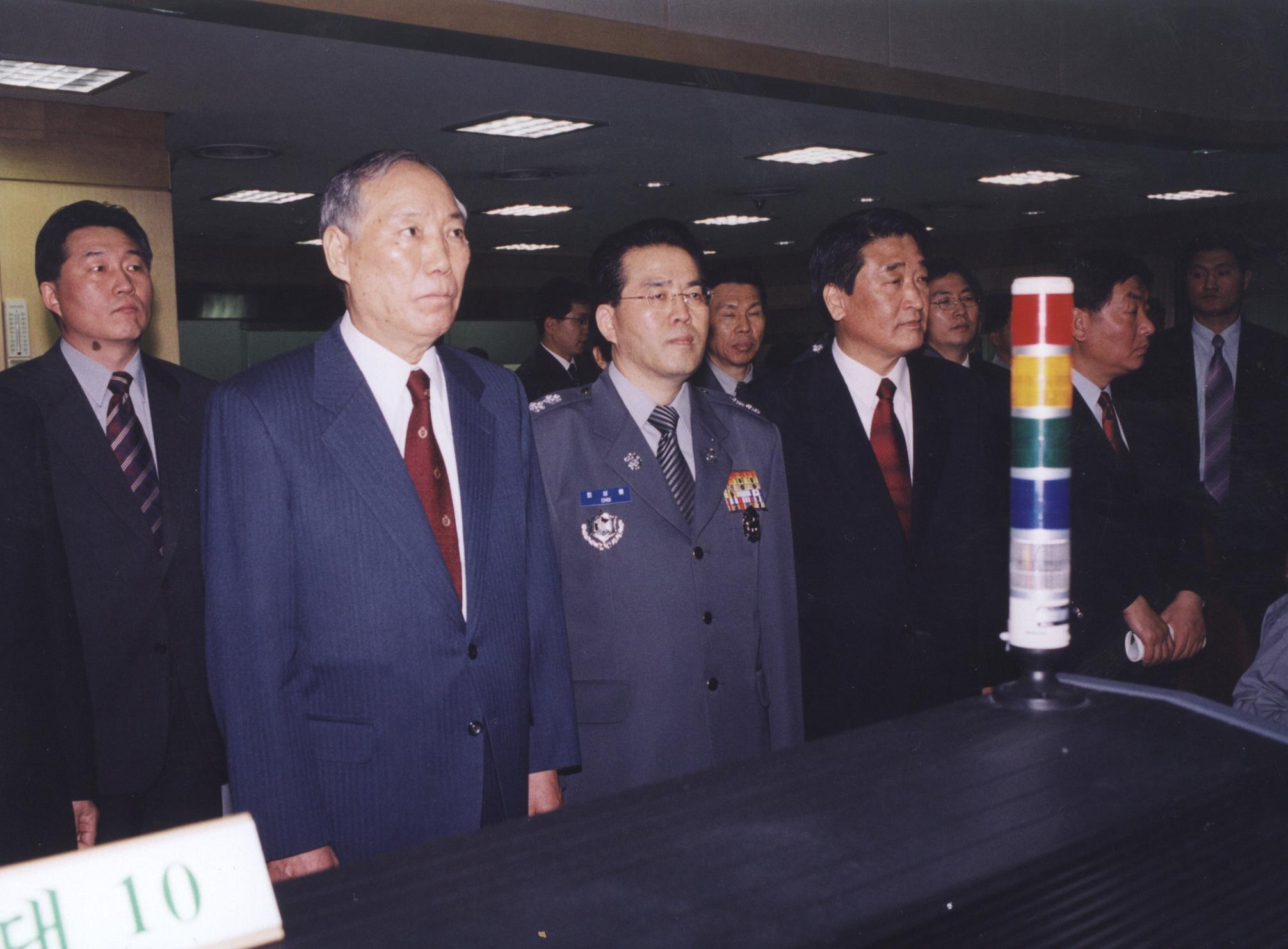 대한민국 총리 김석수 서울종합방재센터 방문